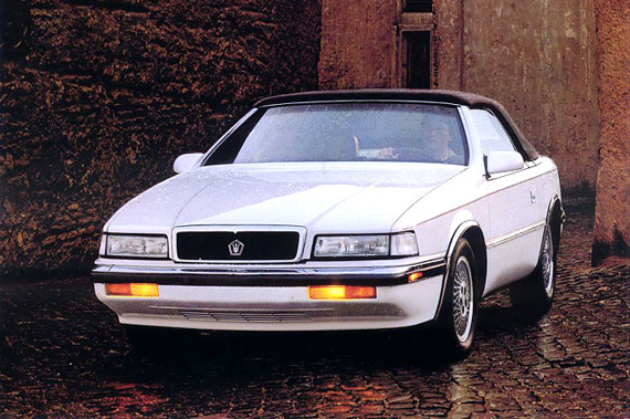 Chrysler TC-1